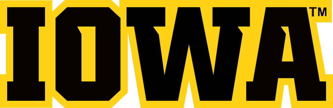 University of Iowa Athletics wordmark